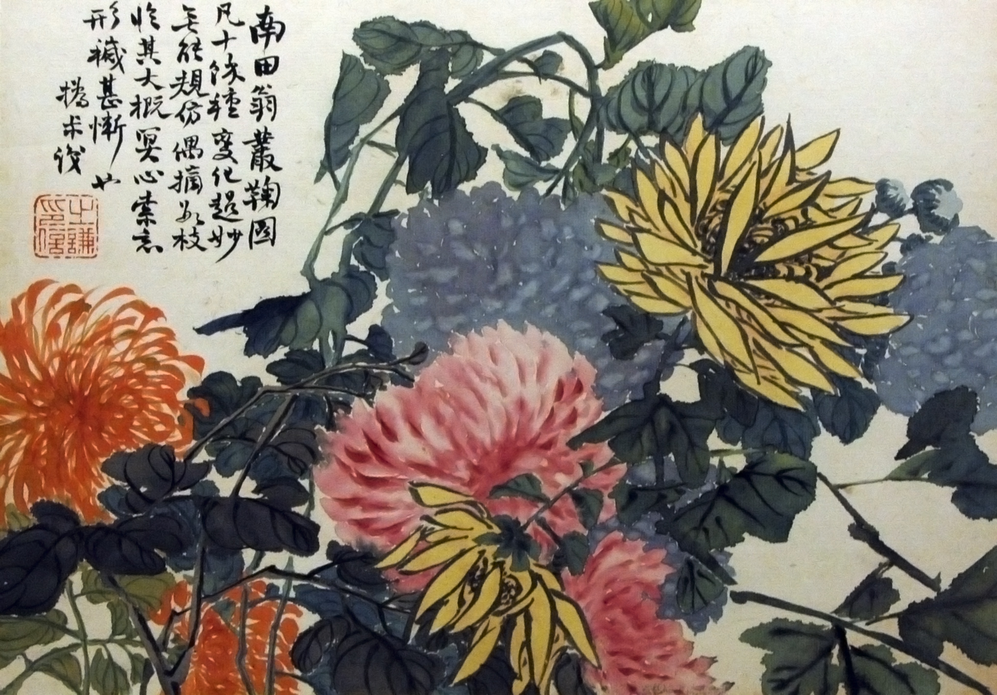 A leaf from the album "Flowers" by Zhao Zhiqian (1829-1884). This album was completed in the 9th year of the Xiangfeng reign (1859).